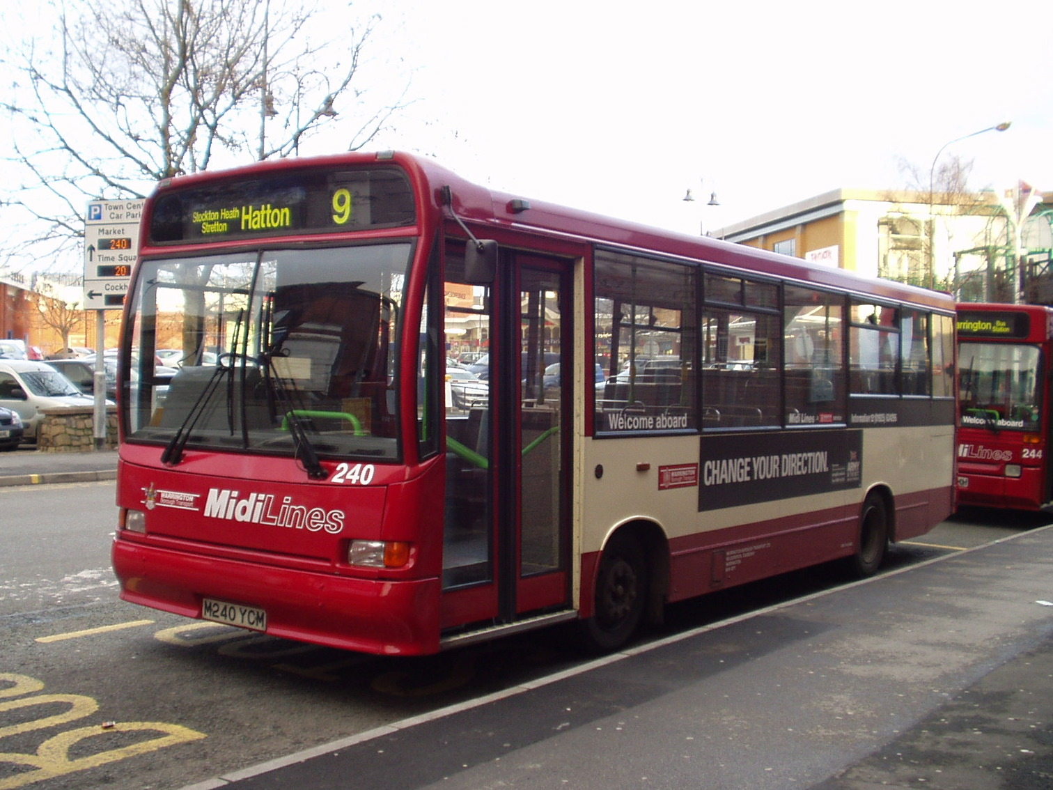 Warrington Borough Transport Dennis Dart with Marshall bodywork M240 YCM